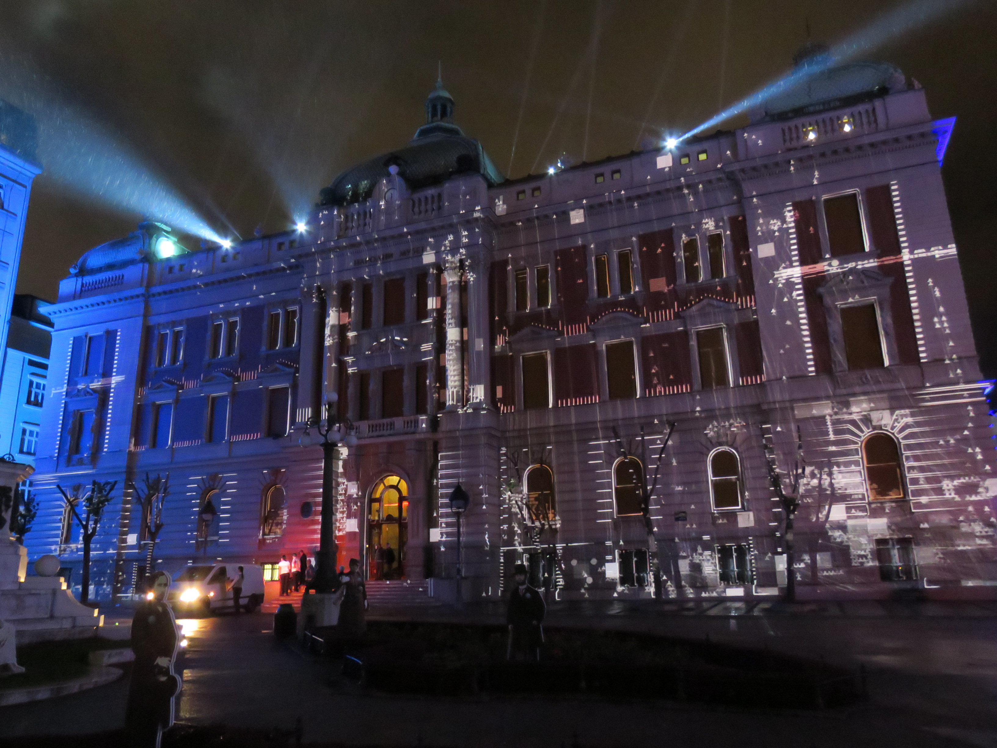 After 15 years, the National Museum of Serbia has opened its doors on 28 June 2018.